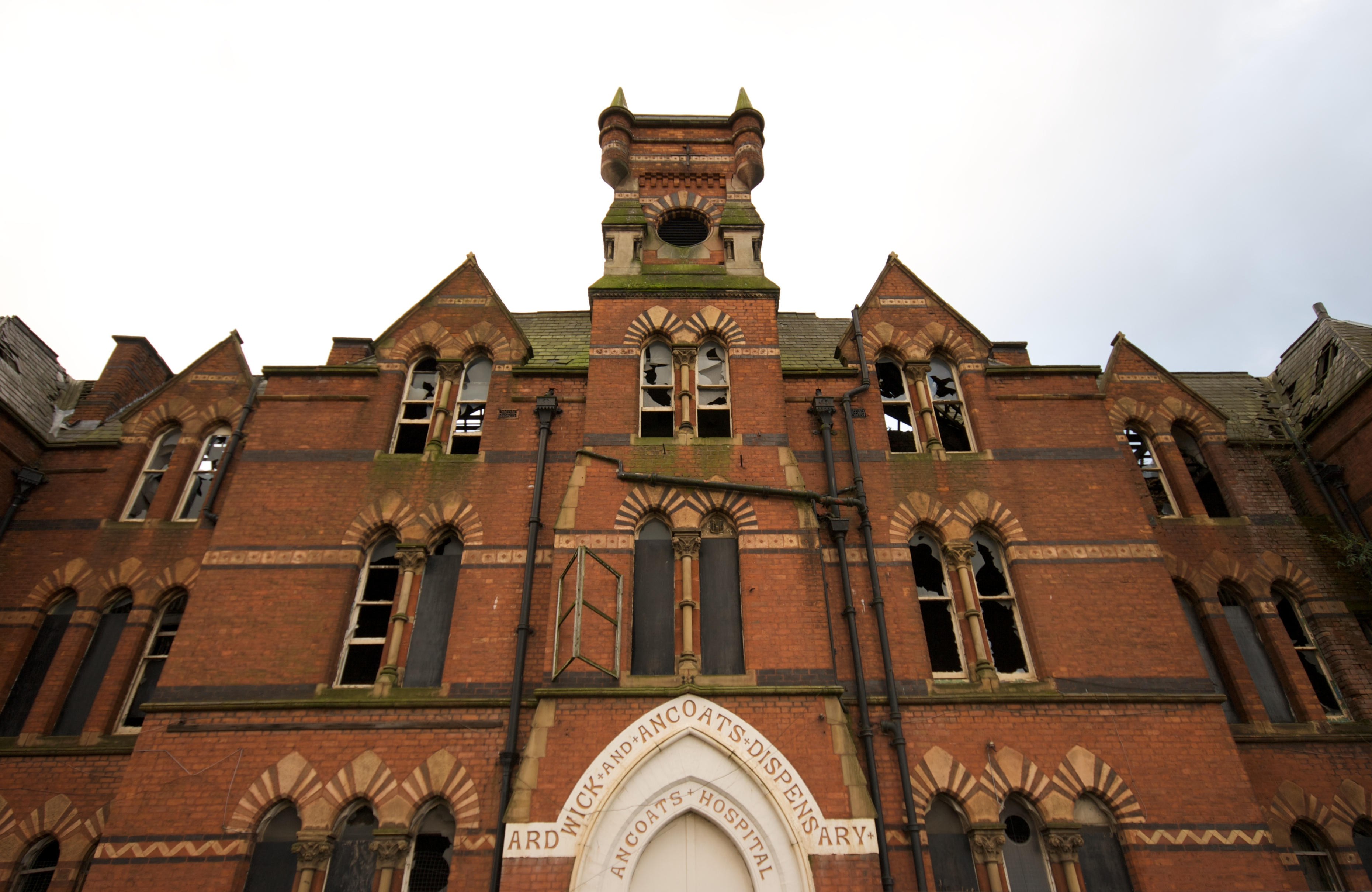 Still undeveloped and decaying, still rather spooky. I was experimenting with the new wide lens - its great for buildings, but tilting leads to strange distortions. In this case I did it deliberately, trying to make the old building loom.